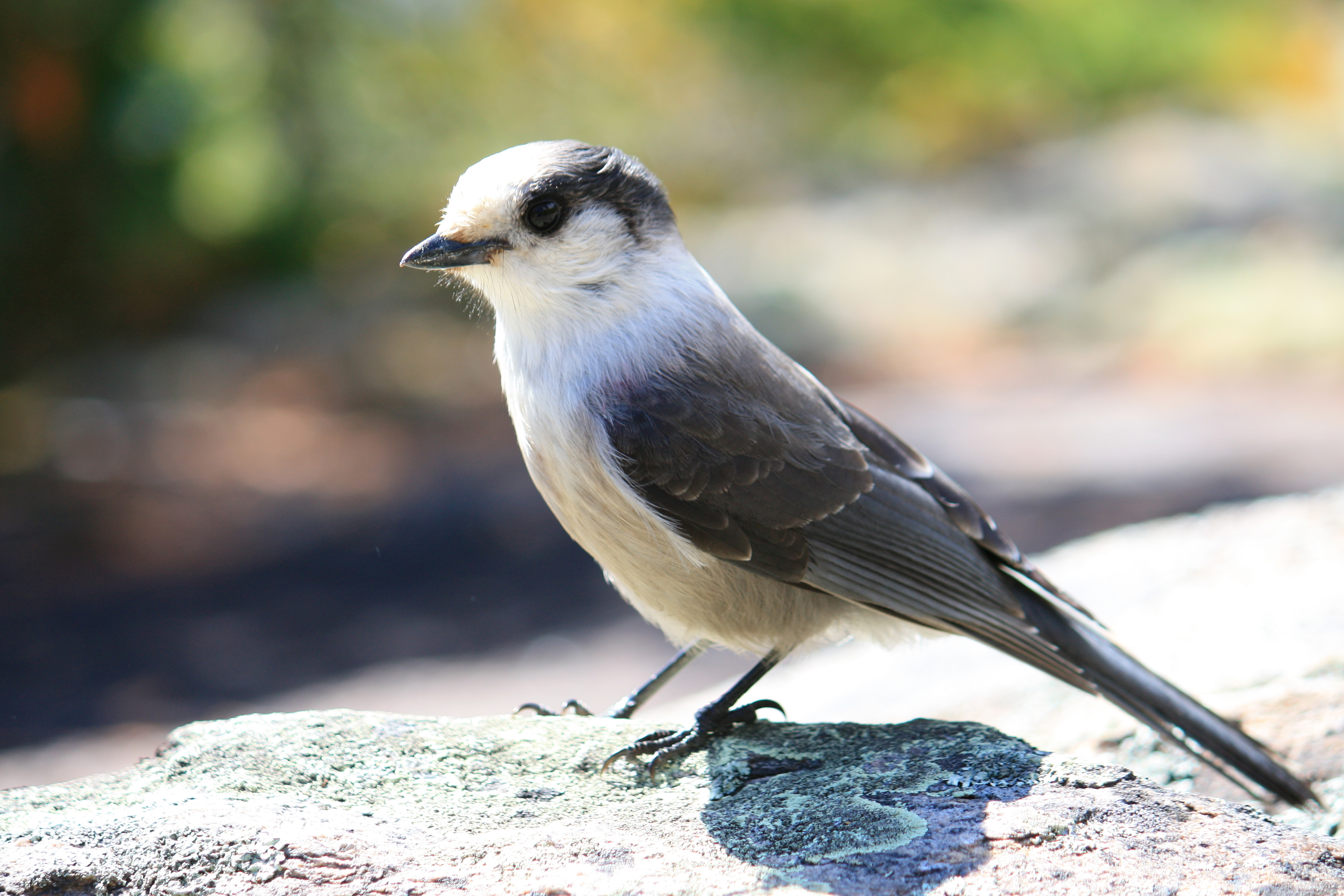 Gray Jay ( Perisoreus canadensis), Parc Sept Chutes, St-Zenon, Quebec.